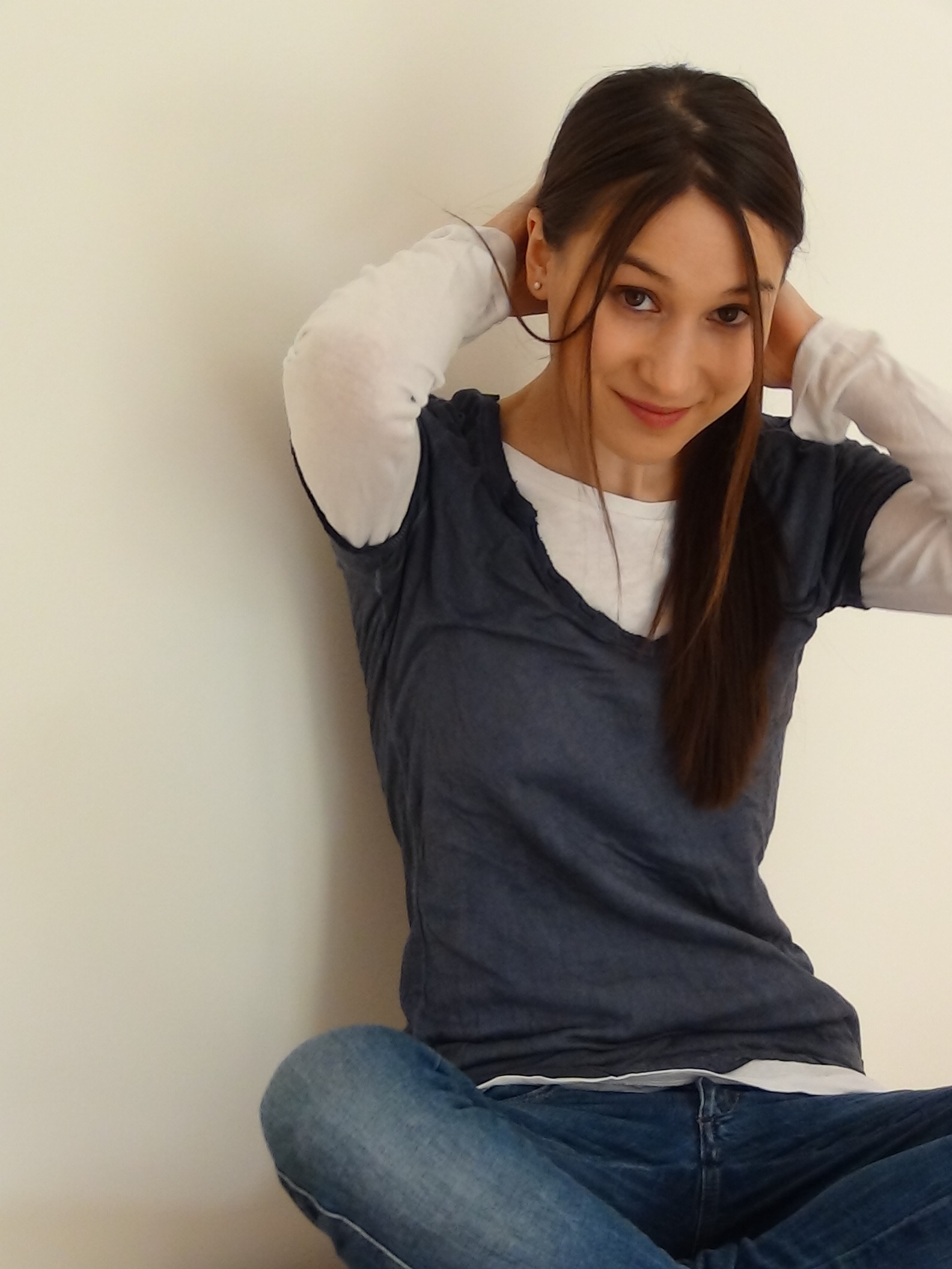 Lilly Lindner - German bestselling author